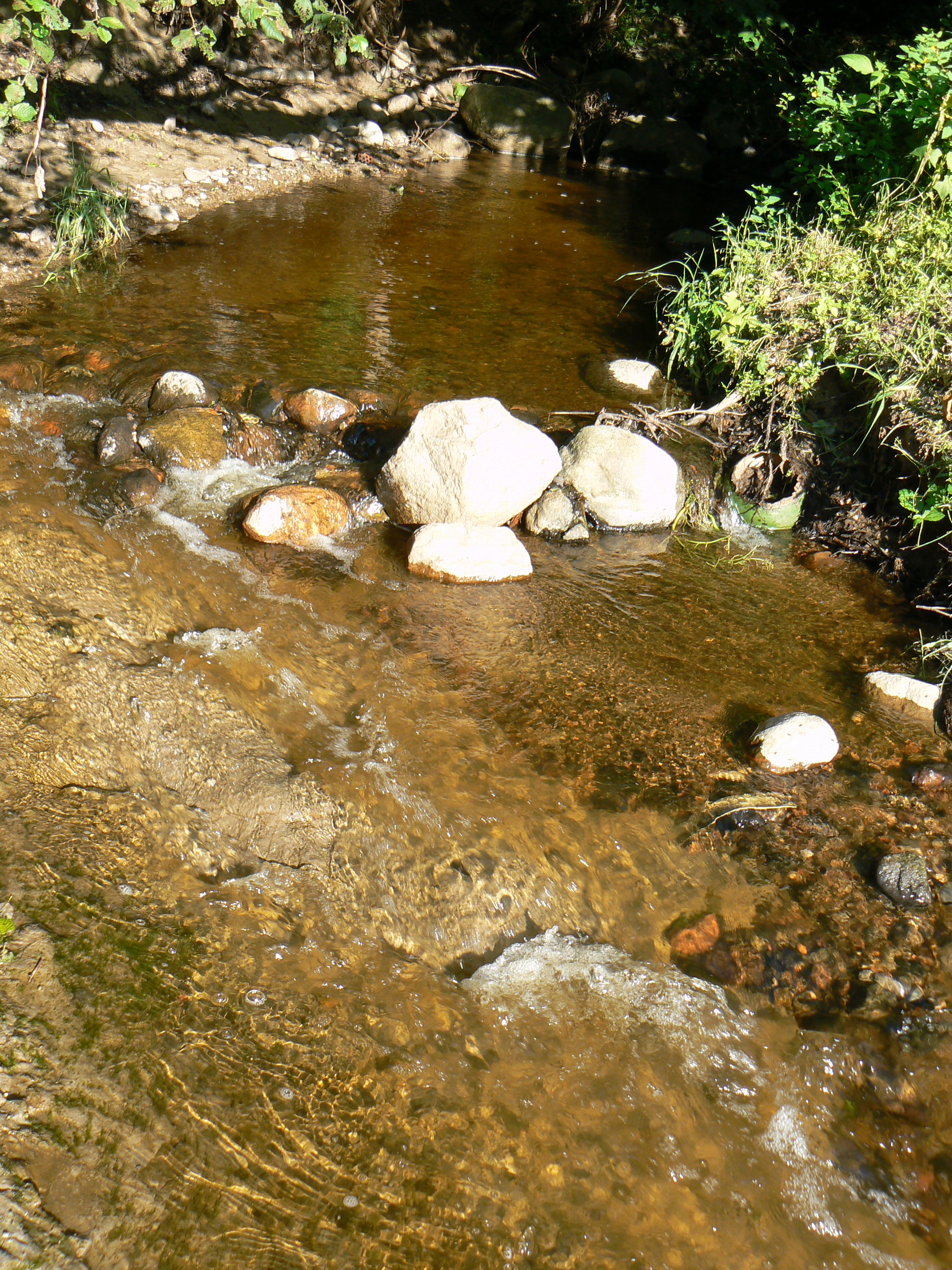 Rivulet Nemylas (tributary of Jūra) in Pajūris